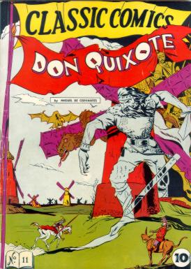 Cover scan of a Classics Comics book